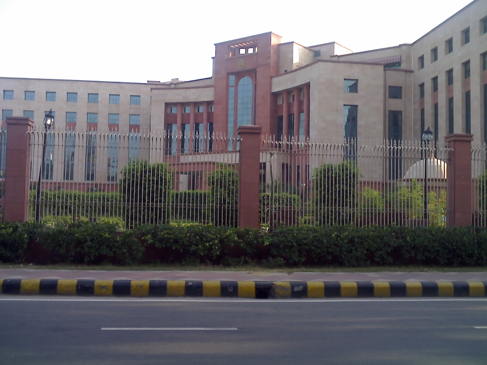 DRDO BHawan, DRDO Headquarters, New Delhi, India